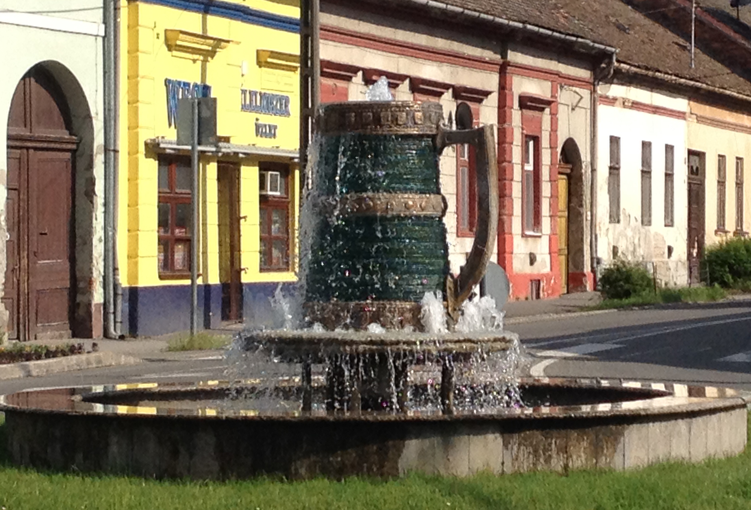 Beer Mug Fountain by Éva Szabó and Rita Sörös (2009 bronze and glass fountain statue) - Roundabout at Bartók Béla Street, Kaposvár, Hungary